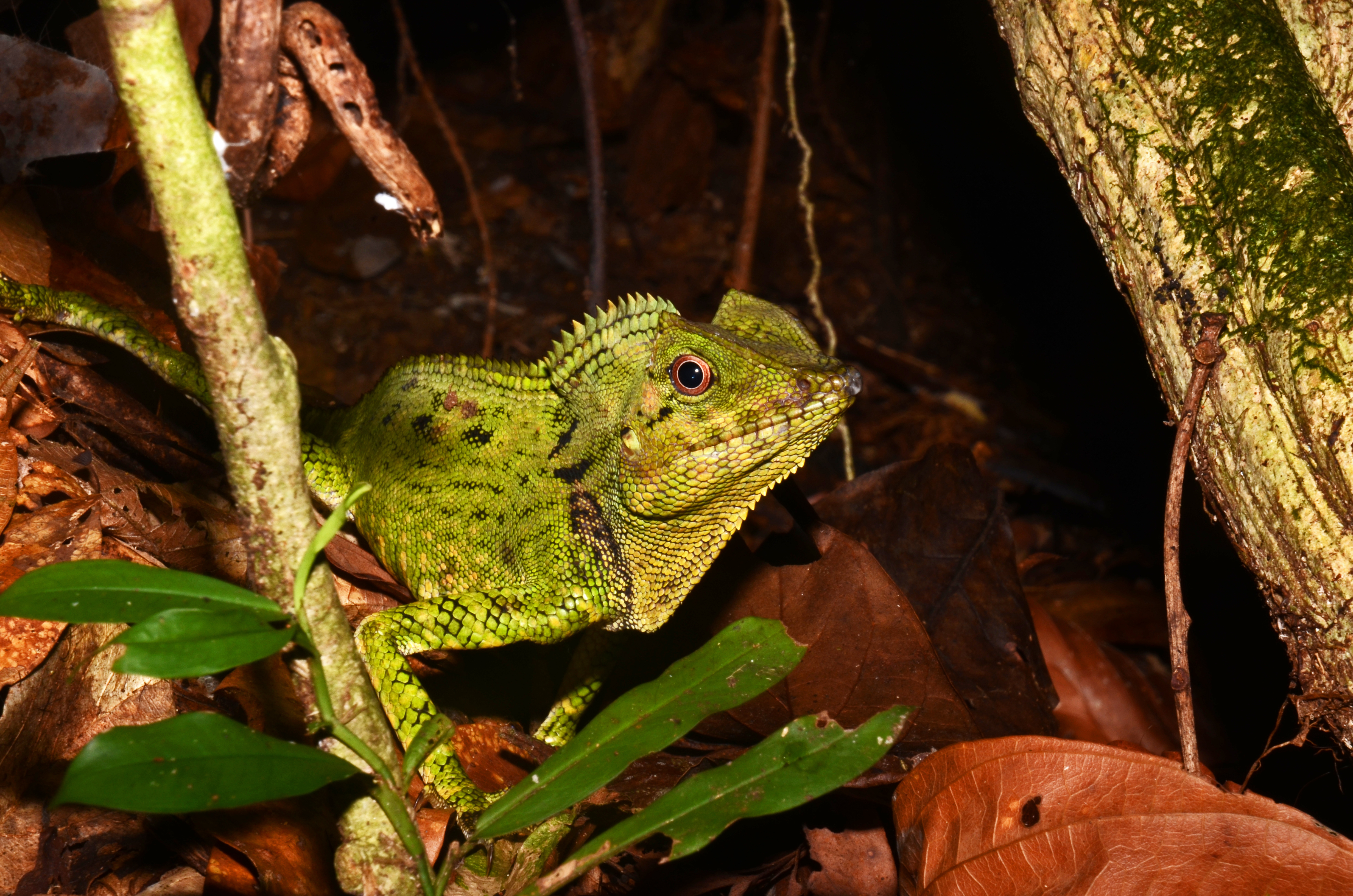 Gonocephalus doriae, Gunung Gading National Park, Malaysia, 8 October 2015. Photo by Geordie Torr